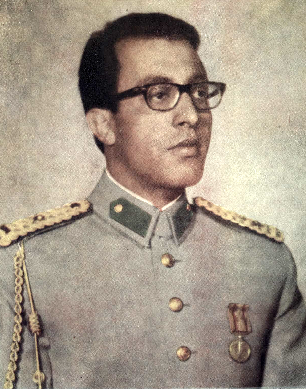 Photo of Prince Ahmad Shah.